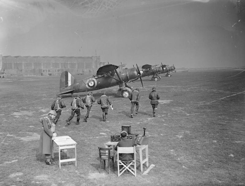 Royal Air Force Army C-operation Command, 1940-1943. Pilots of No. 400 Squadron RCAF run to their Westland Lysander Mark IIIs at Odiham, Hampshire, during an Army cooperation exercise, after having received their flying orders from an Army Liaison Officer (left, foreground). The ALO will monitor the sortie through his wireless operator, working the VHF transmitter/receiver set next to him.